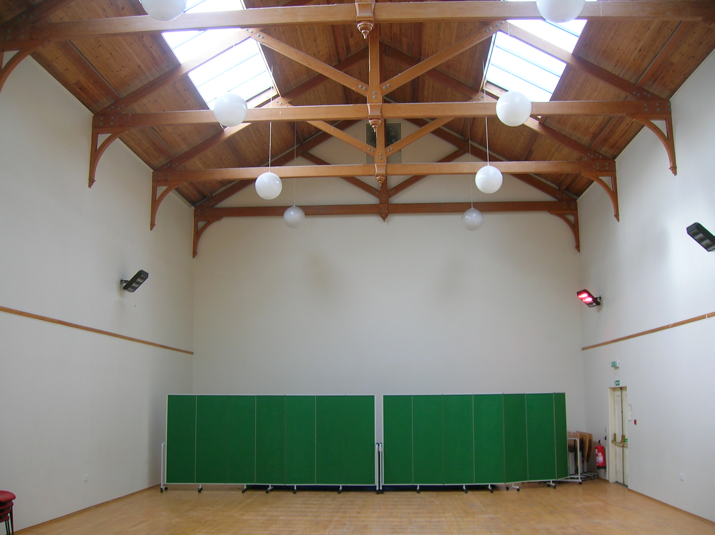 The interior of the Racquet Hall at Eglinton, Ayrshire, Scotland. Oldest Racquet Hall in the World. Oldest covered sports hall in Scotland.